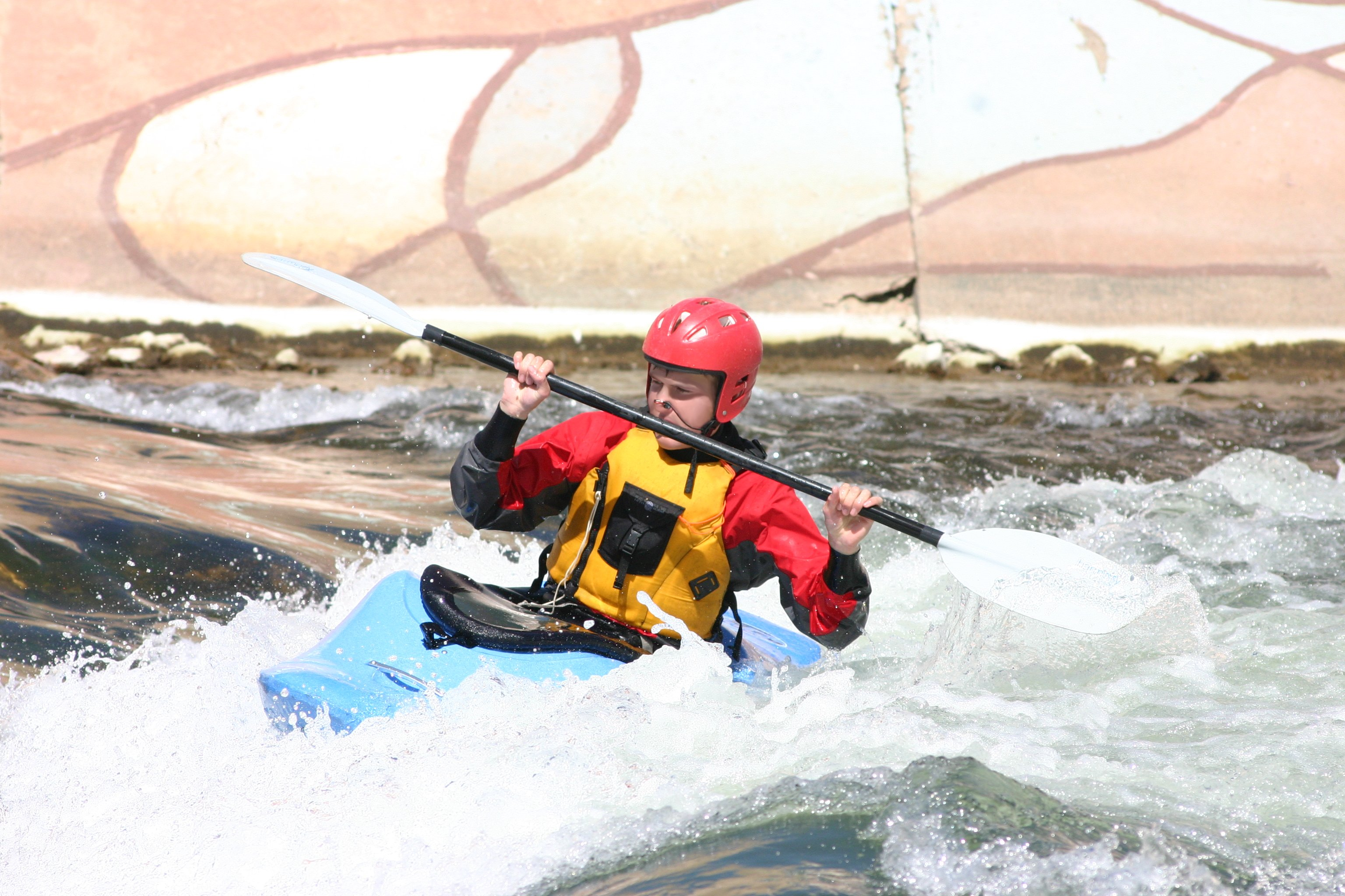 Playboater side-surfing with his paddle (currently) in the air in Pueblo, Colorado, USA. (Face distorted for anonymity.)